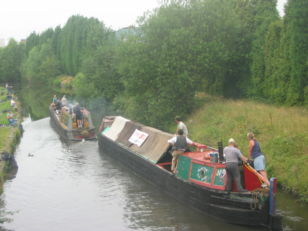 Working narrowboats, Ashton Canal, Manchester, England: Forget-Me-Not (wooden canal boat) towing a butty boat